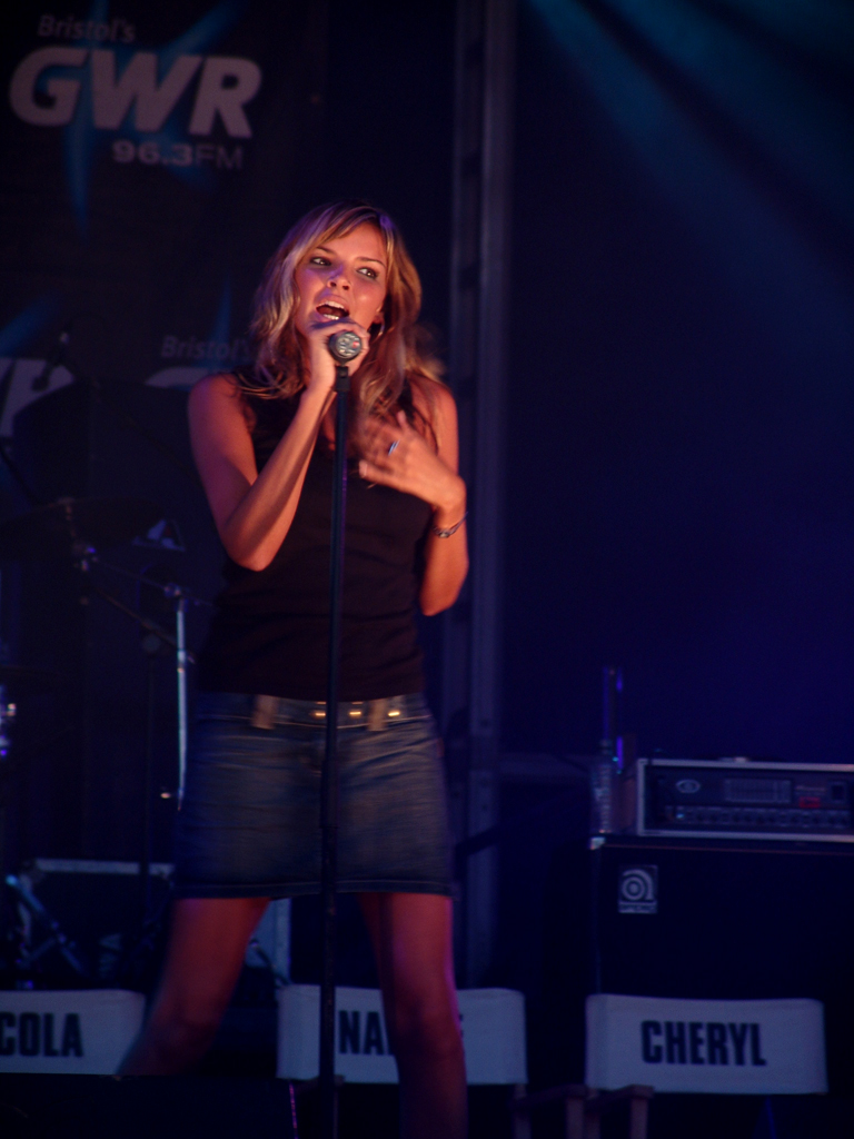 Nadine Coyle from Girls Aloud